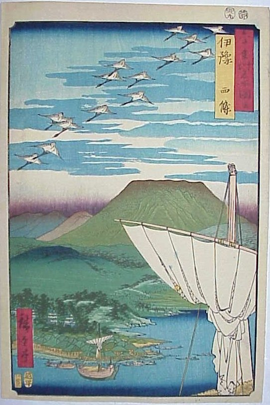 Iyo Saijō of the Famous Scenes of the Sixty States.